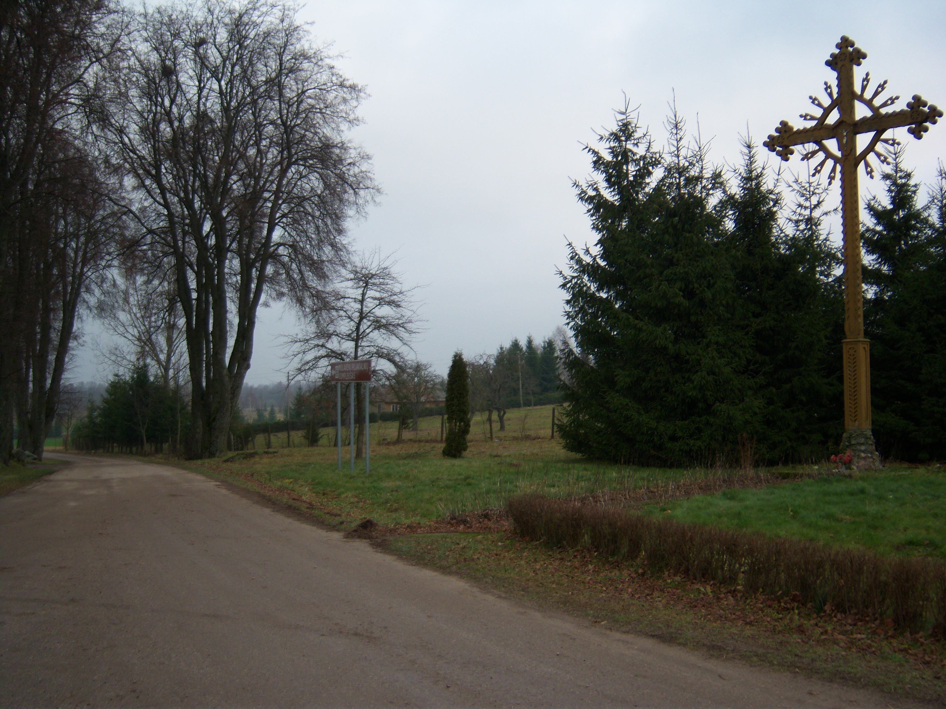 Pašešuvys, Raseiniai District, Lithuania